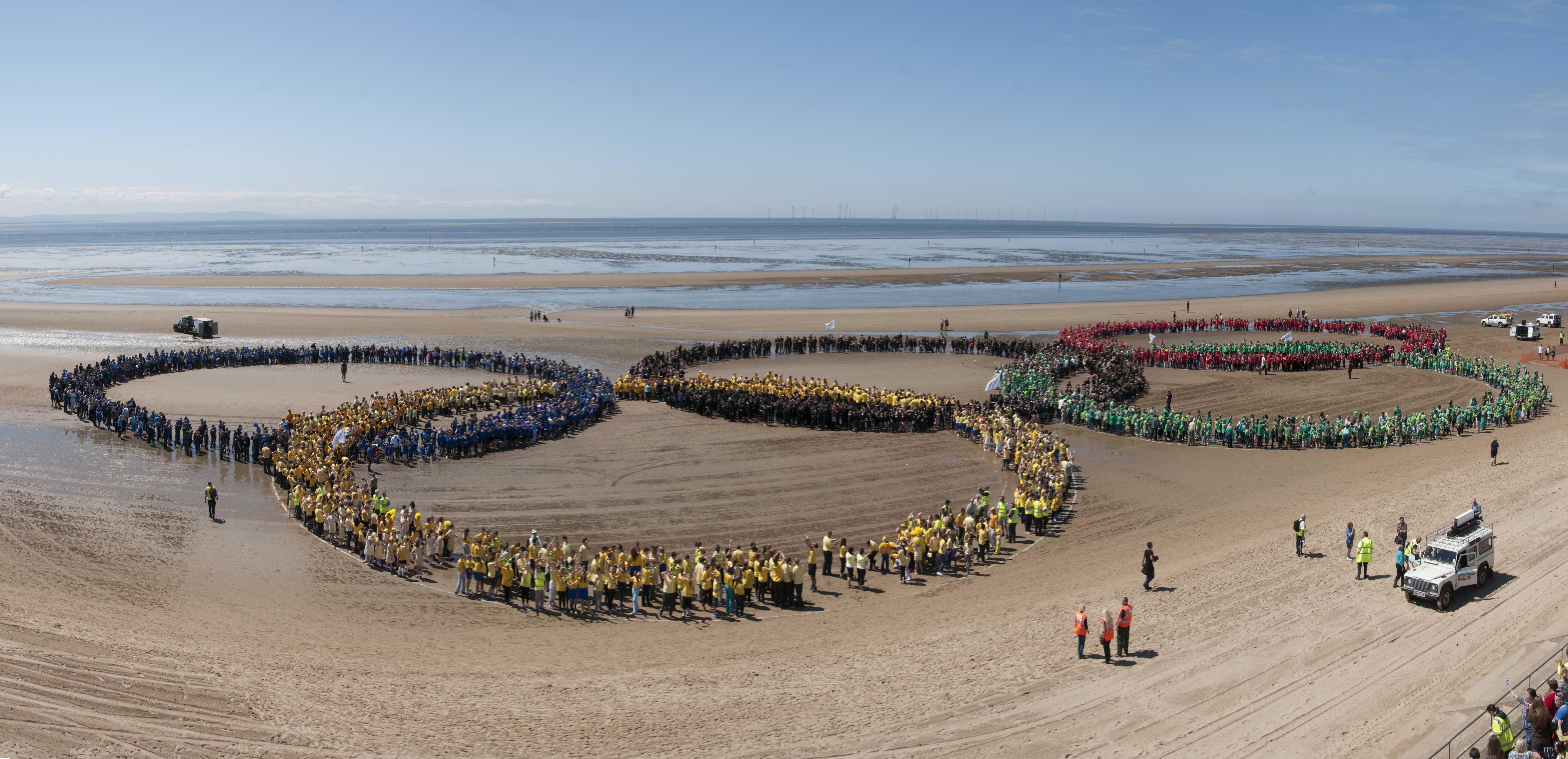 Crosby welcomed the Olympic torch in world record breaking fashion on Friday June 1st, as thousands of school children smashed the world record for the biggest human Olympic rings logo formation. A massed crowd of 5,880 pupils from 46 schools across Sefton dressed in yellow, black, red, green and blue T-shirts to form the famous hoops on Crosby beach, while thousands of proud parents and residents watched from the surrounding Promenade and sand dunes. Sefton Council, Sefton CVS and local volunteers acted as stewards and organisers throughout the event. After standing in formation for more than 10 minutes, the huge gathering, which is expected to be confirmed by Guinness as a new world record, smashed the previous record set last month in Bath when 2,234 people formed the five Olympic rings in Royal Victoria Park. "It was spectacular," said Emma McCormick, a teacher at Linaker Primary School, Southport, whose pupils formed part of the green ring. Leader of Sefton Council, Cllr Peter Dowd, was at the event. He said: "To watch a world record being broken on Crosby beach was truly amazing. Once in formation, it was a spectacular sight with the Antony Gormley statues in the background, along with the famous Sefton coastline. The world record attempt and the Olympic Torch relay has really put Sefton on the national map during a time of real celebration. Special thanks goes to all the schools involved and the likes of Merseyrail, Merseyside Police, the RNLI lifeguard service, all the volunteers and our other partner agencies who made this special feat happen."